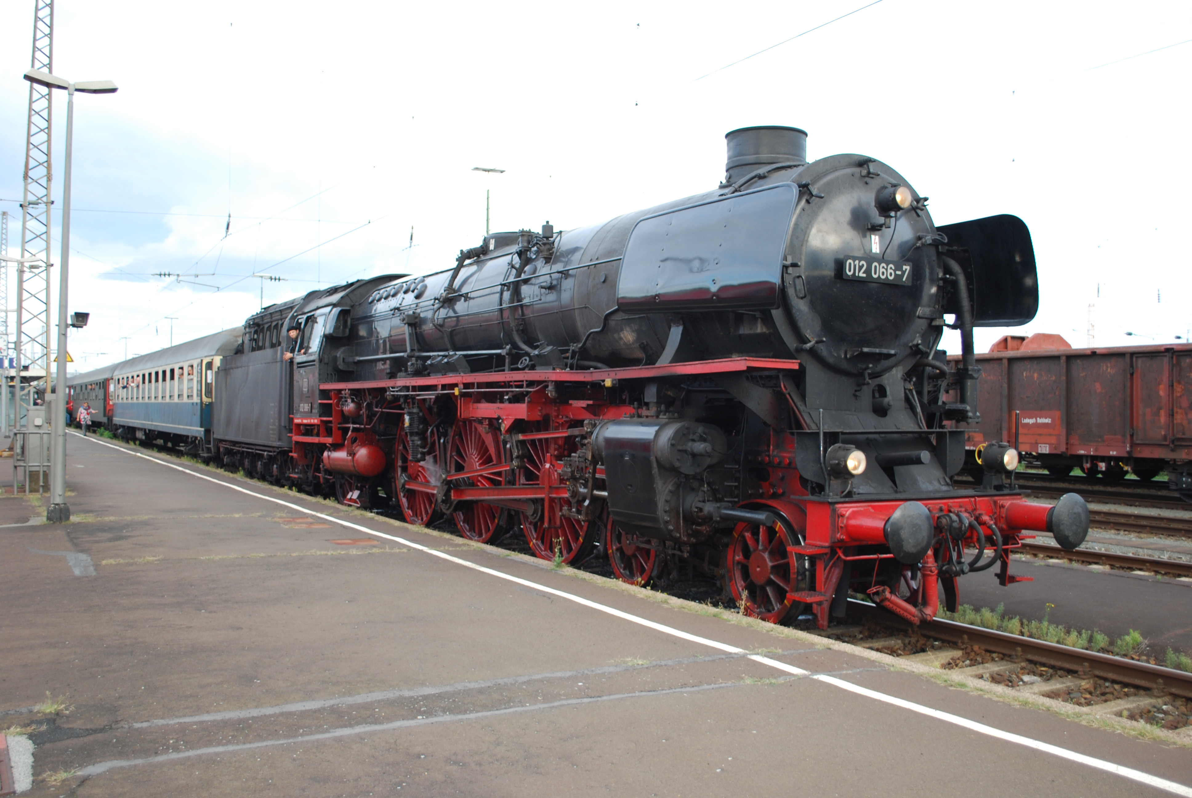 DRG CLass "01.10" as rebuilt by DB to Class "012" oile-burning 4-6-2 No.012 066 (ex- 01 1066) at Schweinfurt on a steam special to Goppingen, 09/12. The "01.10's" were a 3-cylinder, streamlined development of the Class "01" Pacifics for the elite express services. The DRG identified a requirement for 400 and placed an initial order for 204 but only 55 were built 1939-40 before the war stopped all further production. The "01.10's" were fitted with boilers using a new, advanced high tensile steel designed for high boiler pressures - "St47K-Mo". However, in the event the steel proved highly susceptable to premature fatigue and by the end of the war the "01.10's" were in a sorry state, with bits of their streamilned casing having fallen off or been removed, and their boilers in a dangerous condition. They were immediately withdrawn. All 55 were in West Germany and passed to the DB which could not afford to leave such valuable assets idle. 1 was scrapped in 1949 because it was in such bad condition and the remainder in 1949-50 had their streamlining removed (no front fall plate was fitted) and were given extensive repairs (including welding the cracked boilers) but this did not solve the problem of prematurely aging St47K boilers. Finally, the DB decided to completely rebuild the engines in 1953-56 with new all-welded, high- performance boilers of conventional steel, combustion chambers, wide chimney and Witte smoke deflectors. As coal burners, the DB later reclassified them "011". In 1956-58, 34 were converted to oil burners (later reclassified "012"). The rebuilt locos were amongst the finest Pacifics in Europe, being fast and powerful with a high availability. The last (012's) were withdrawn at Rheine in 1975.